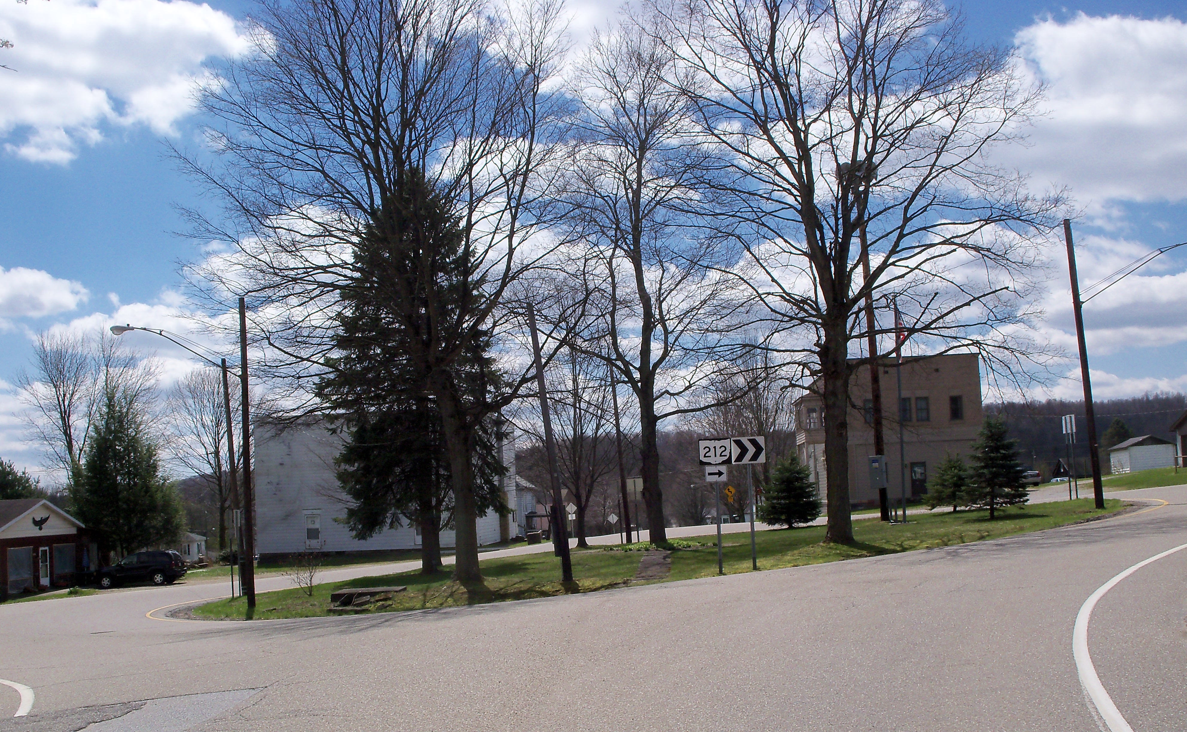 Leesville, Ohio has a traffic circle